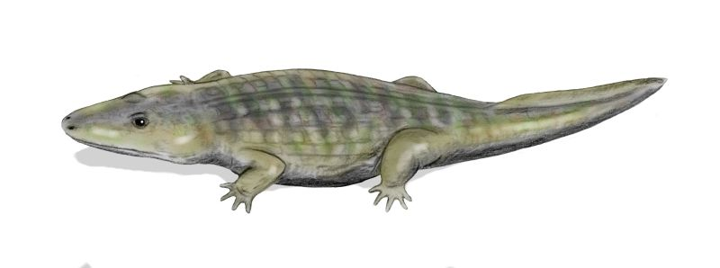 Wetlugasaurus angustifrons, a temnospondyli from the Early Triassic of Northern Russia, pencil drawing, digital coloring